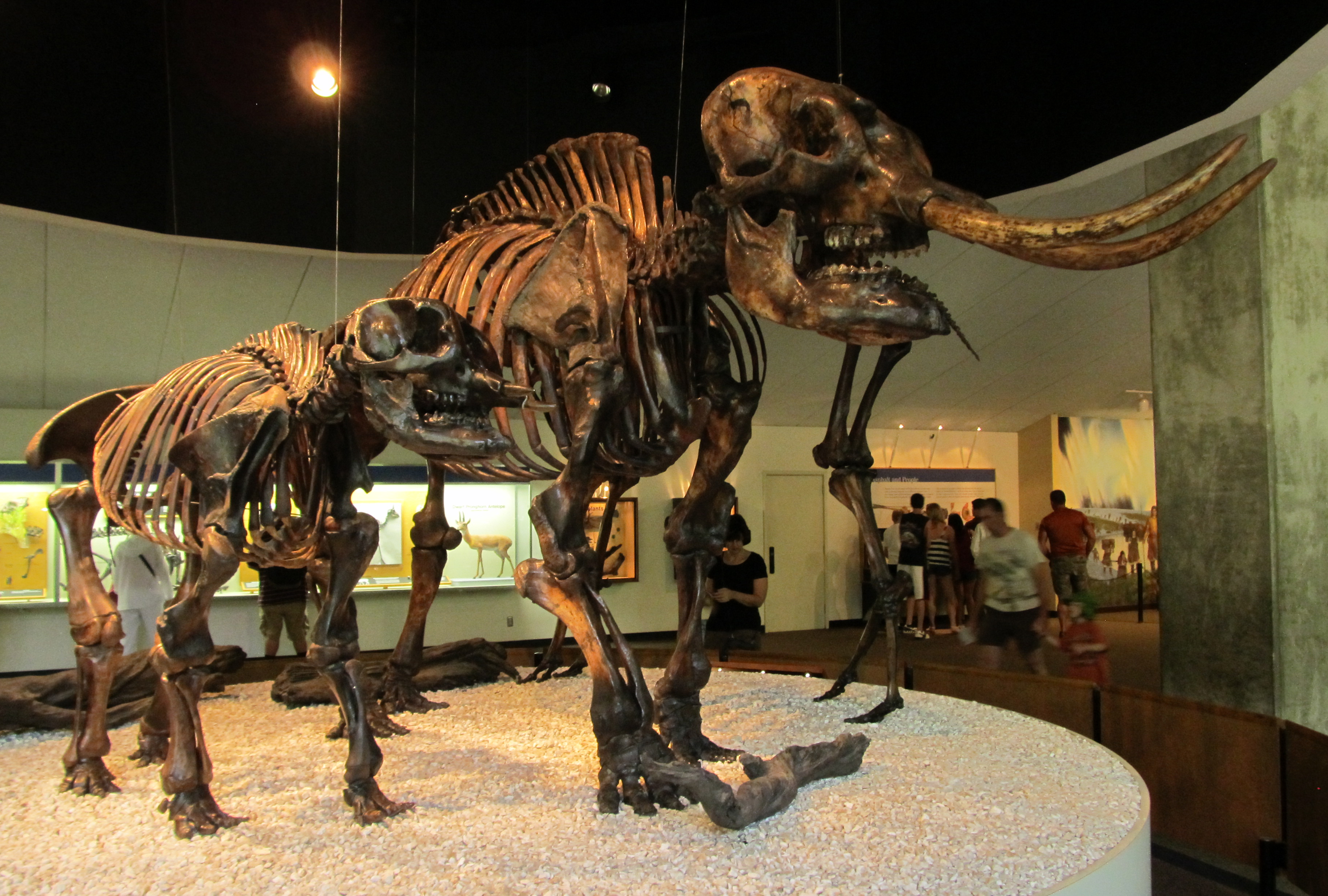 These are American mastodons, mother and child, recovered from the tar pits. These distant relatives of modern elephants lived in North America from 3.7 million years ago until just recently in 10,000 BC.